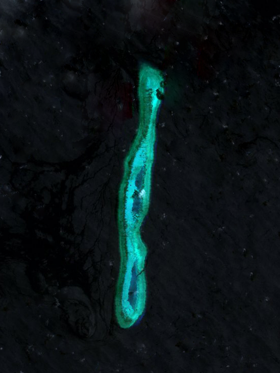 Discovery Great Reef is an atoll of Spratly Islands.